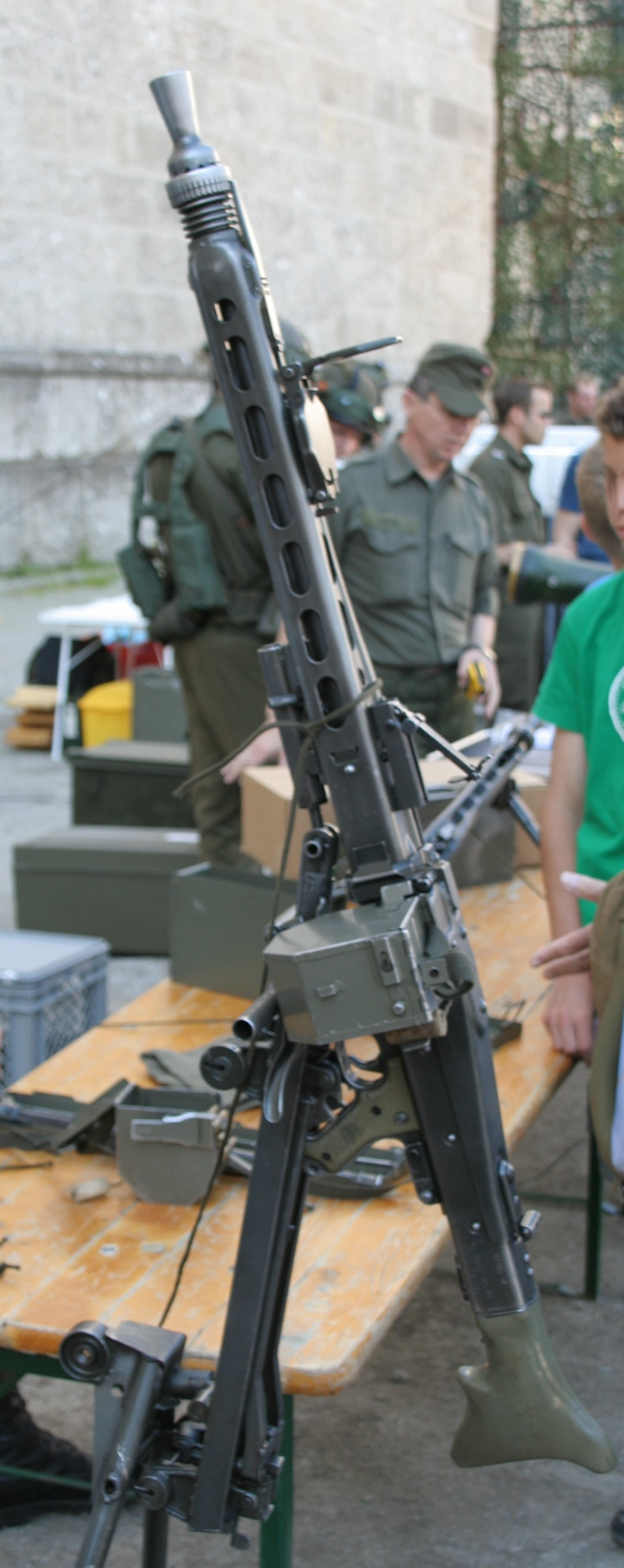 The machine gun 74 of the Austrian Bundesheer. It is a small modification from the german MG42 from second world war.